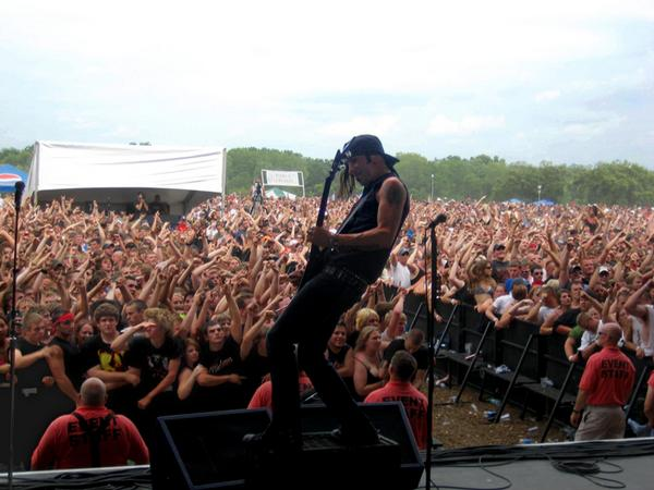 Virus from Dope playing in Madison, Wisconsin in 2008.